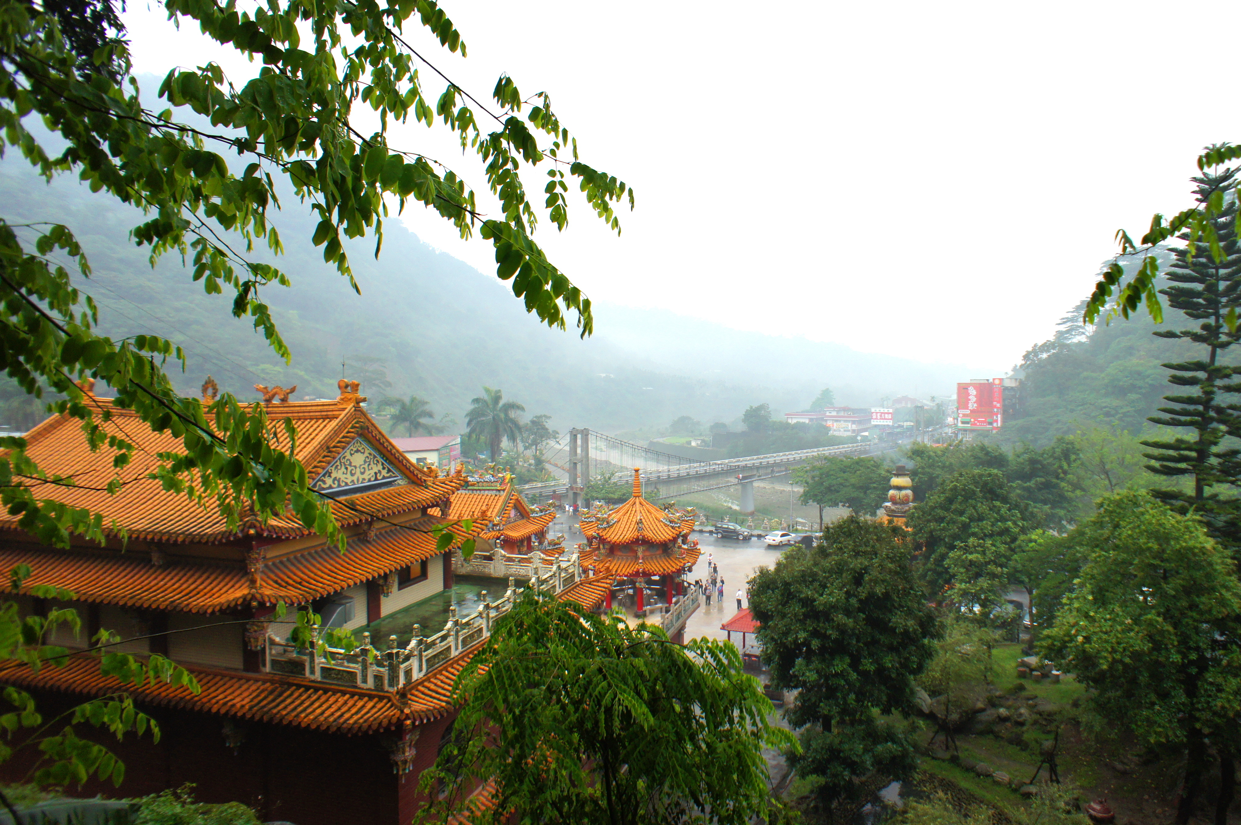 Dijiu Suspension Bridge at Chukou Village, in the Alishan Forest Recreation Area in Chiayi County, Taiwan. Longyin Temple is at the bottom left.